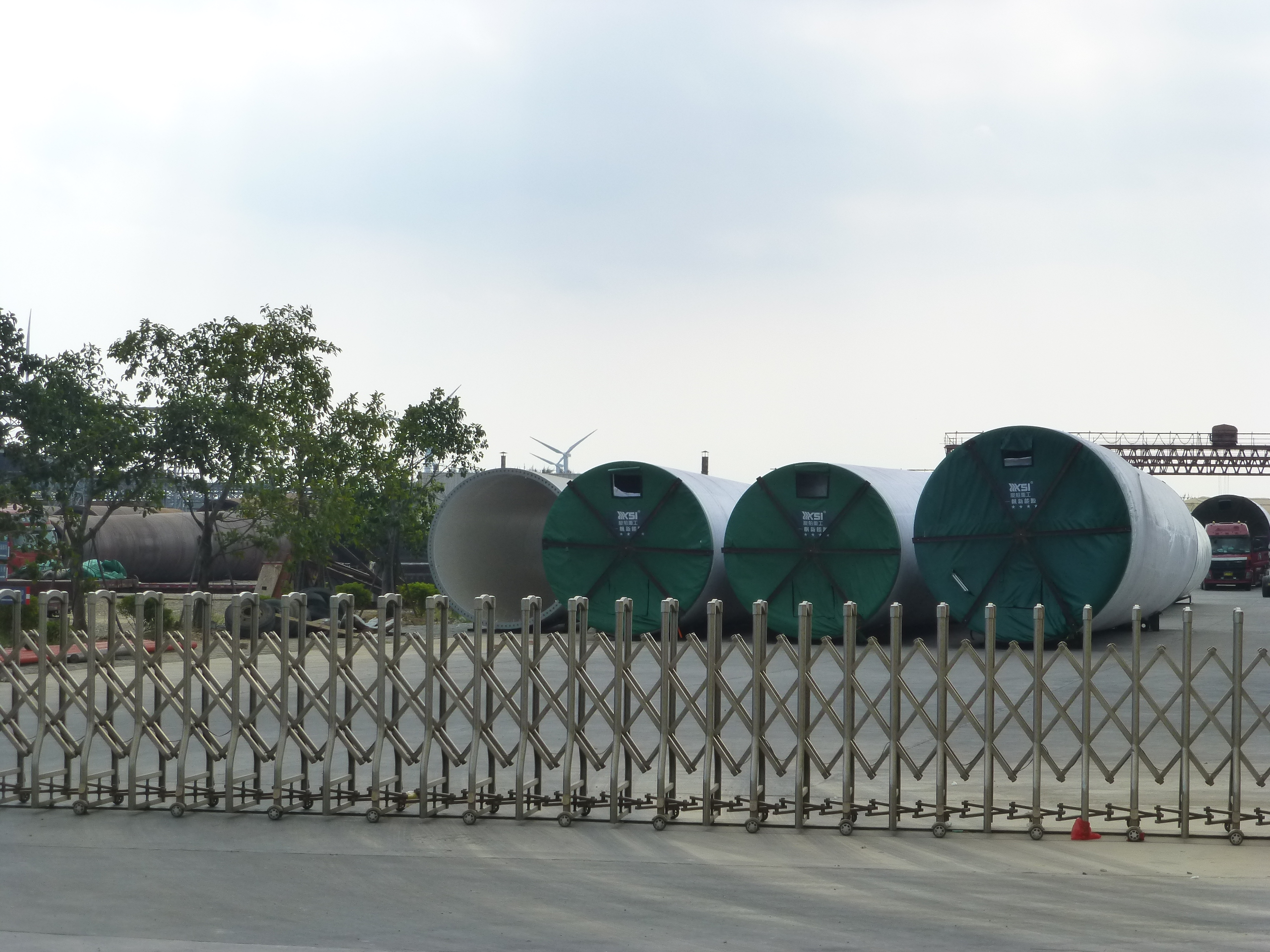 Wind tower elements being prepared for installation at the staging plant in Liu'ao